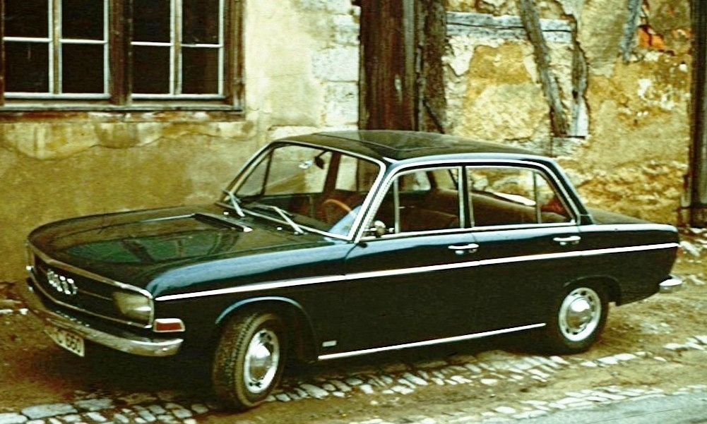 Audi 75 outside Burggasse 14, Rothenburg ob der Tauber (central southern Germany)